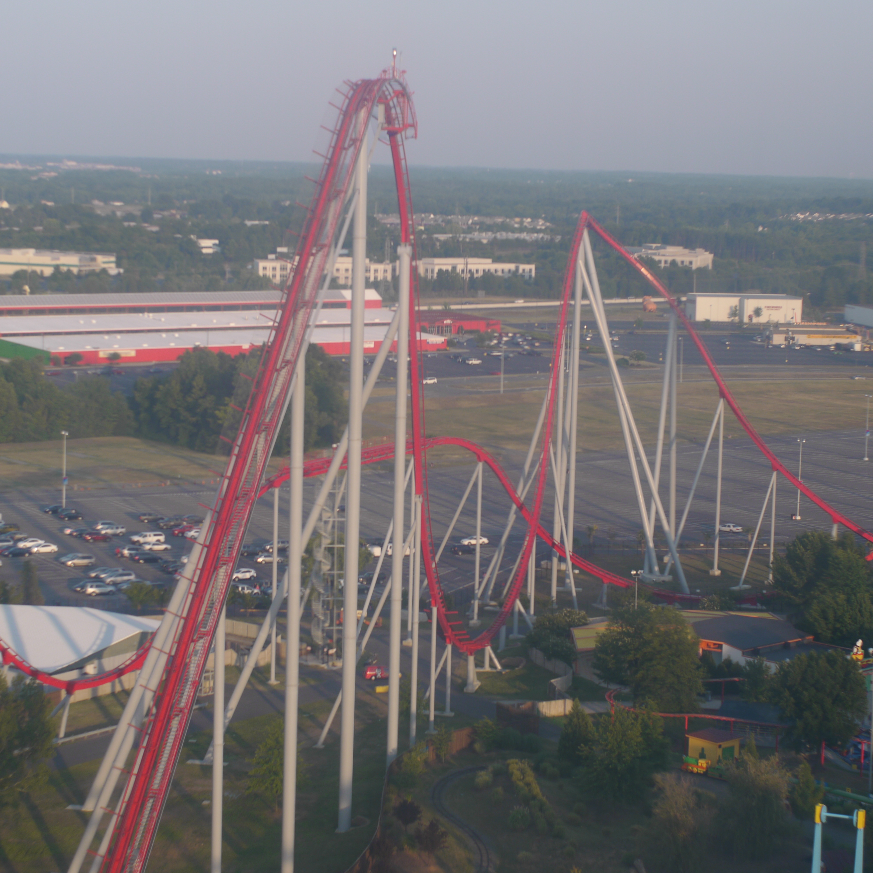 Wikipedia calls it a hyper coaster; that sounds about right.